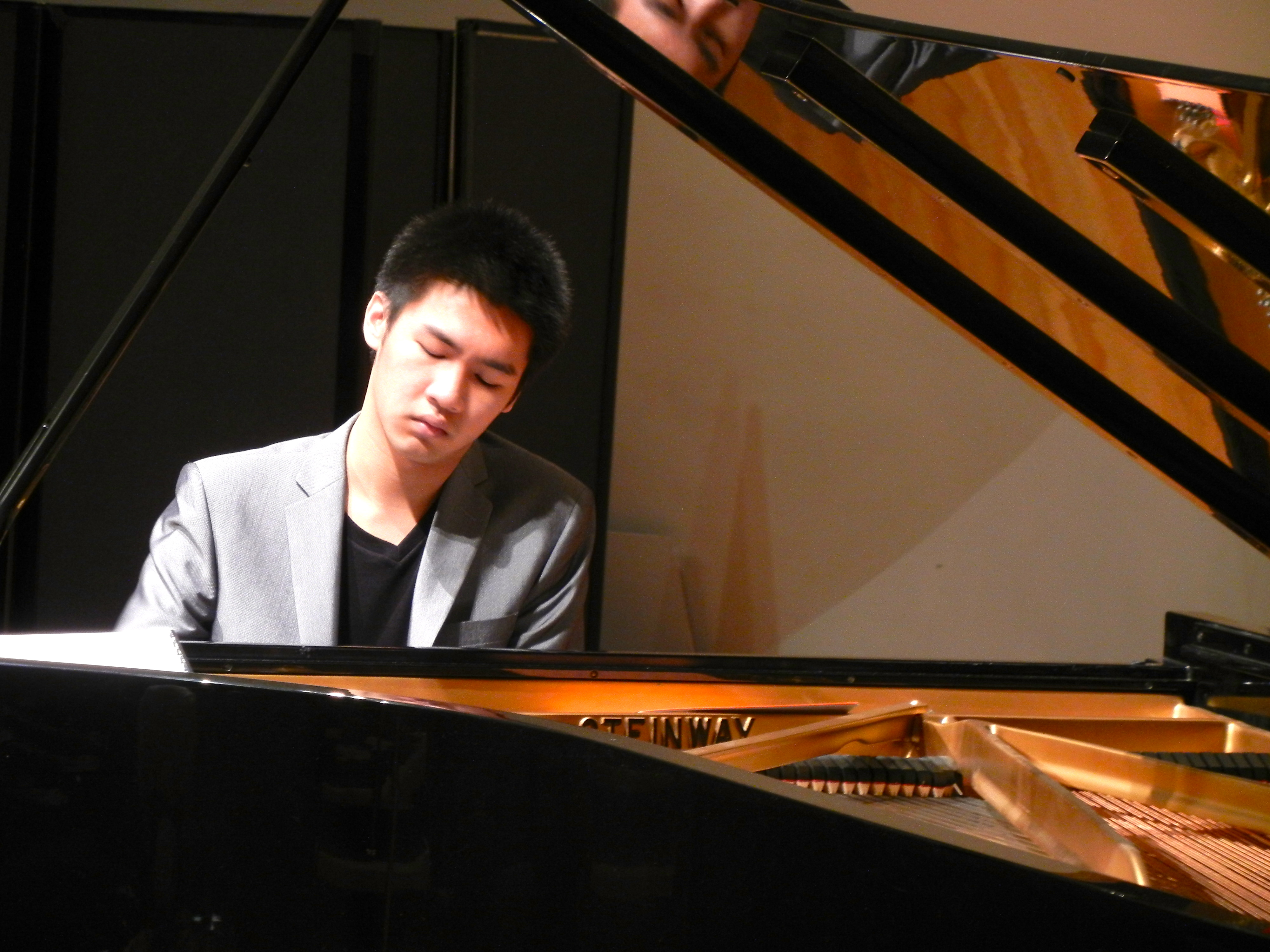 Conrad Tao playing the piano at Rockefeller University on November 17, 2011